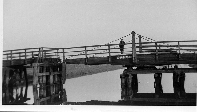 Old Loftsome Toll Bridge, south south west of Wressle, East Riding of Yorkshire, England.Demolished in the 1960's.